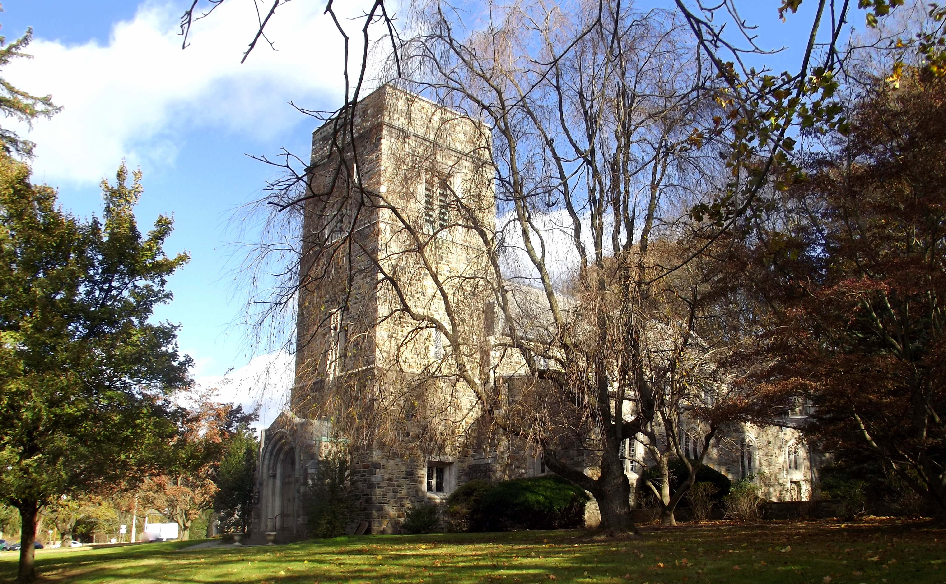 Saint Mark's Episcopal Church in Mount Kisco, New York.